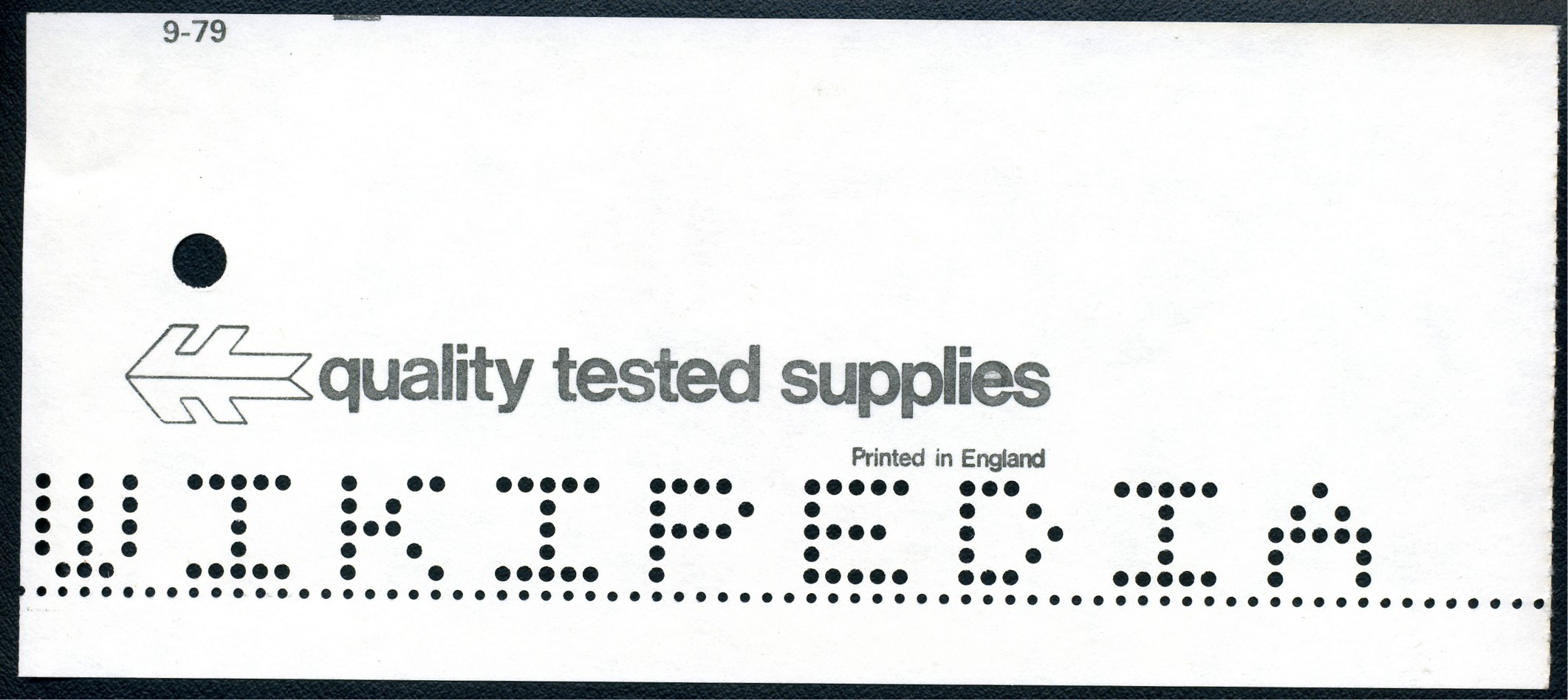 Friden Flexowriter. As well as paper tape, the same codes/holes might be punched on cards that were easy to file (this example has a pretty pattern of holes for demonstration purposes that is not actually meaningful if read by a Flexowriter)